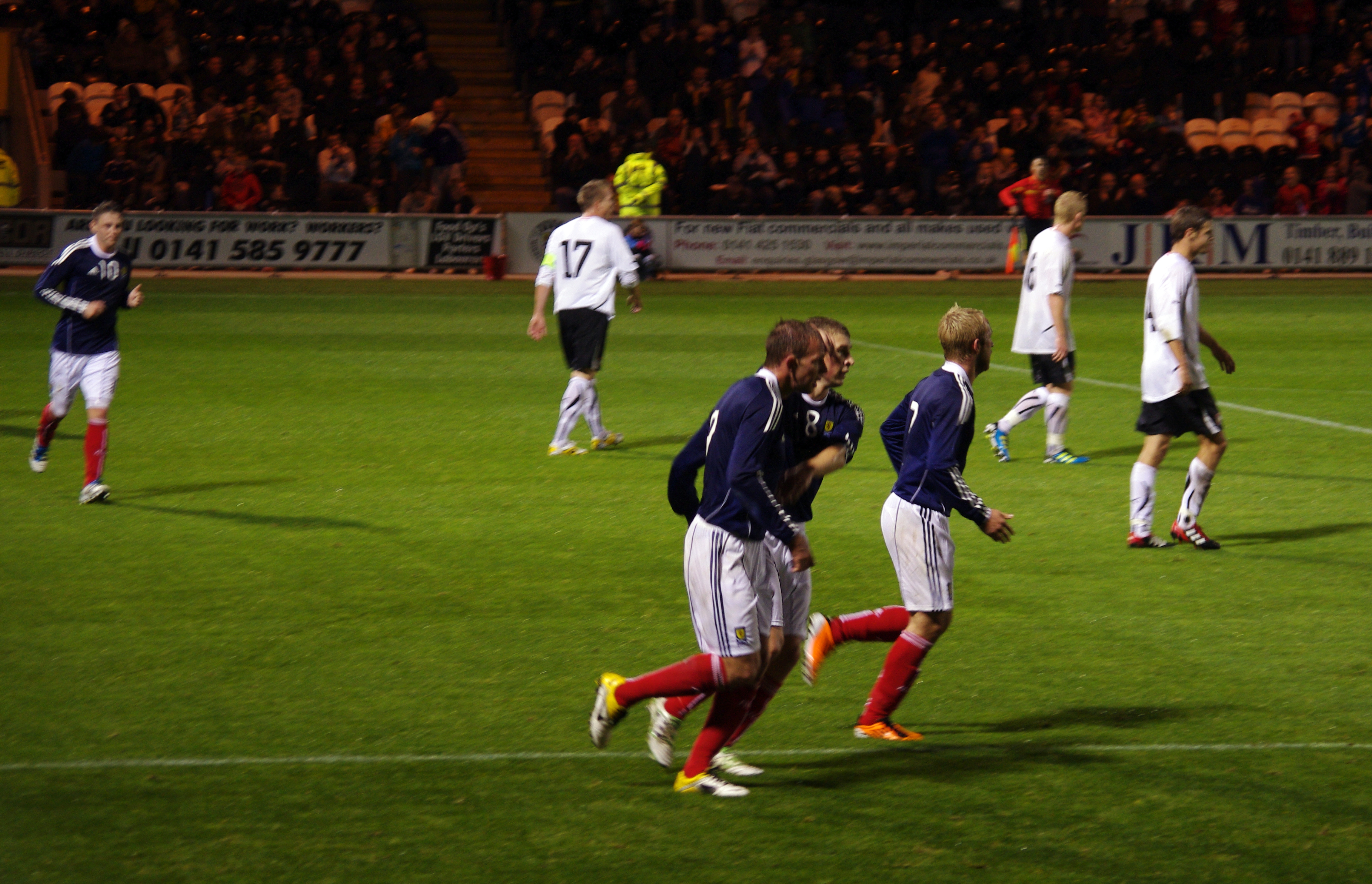 Jordan Rhodes with Scotland U21